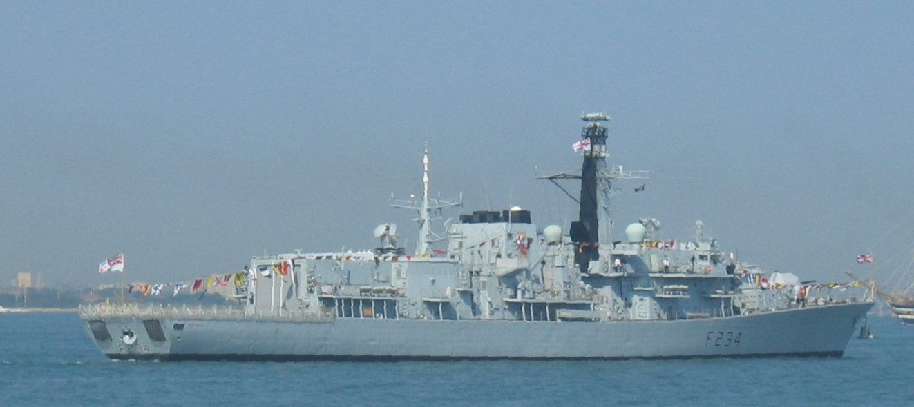 The Type 23 frigate HMS Iron Duke